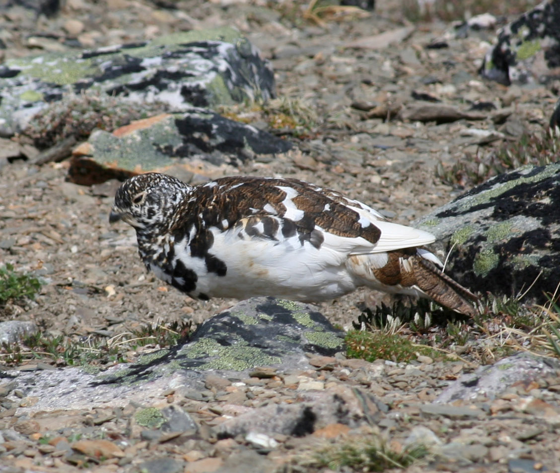 Lagopus leucura. Whistlers Mountain nr Japser (via cable car).